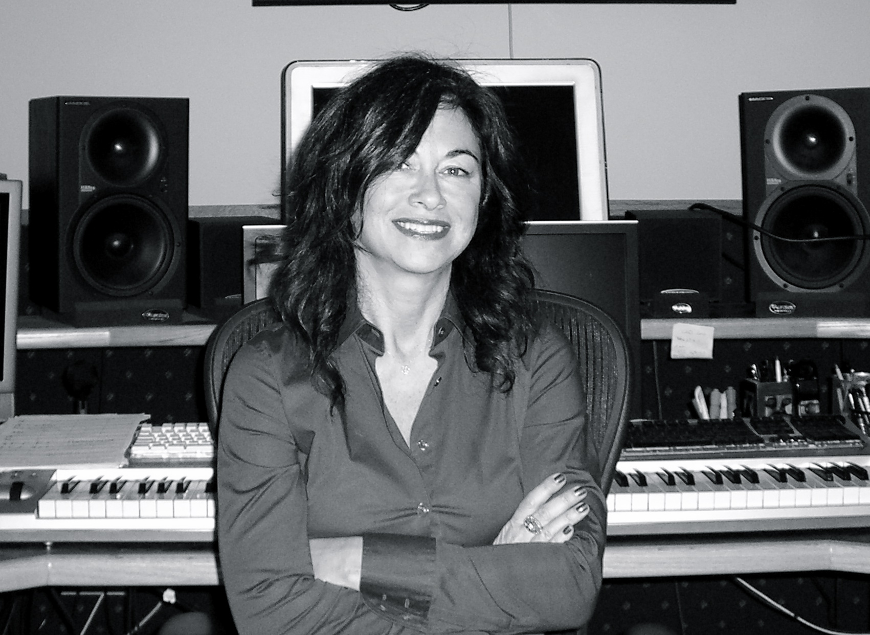 Shelly Peiken took picture myself with a timer in Adam's studio December 2005. I give myself permission to use it